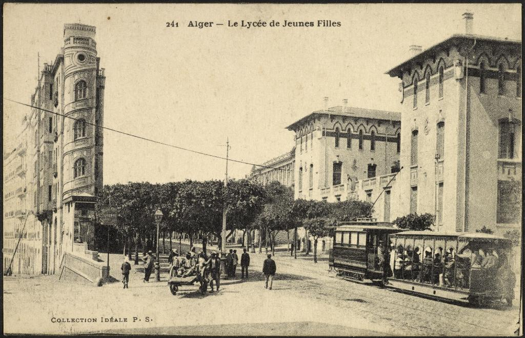 Postcard of Algiers, July 25, 1926 Creator: Idéale Date: July 25, 1926 Accession number: 970031 BOX I Featured in the exhibition, Walls of Algiers: Narratives of the City, May 19 - October 18, 2009 at the Getty Research Institute. Part of the ACHAC (Association Connaissance de l’histoire de l’Afrique contemporaine) collection in the Getty Research Institute Library's special collections. View the finding aid for the ACHAC collection. 2009-01-07